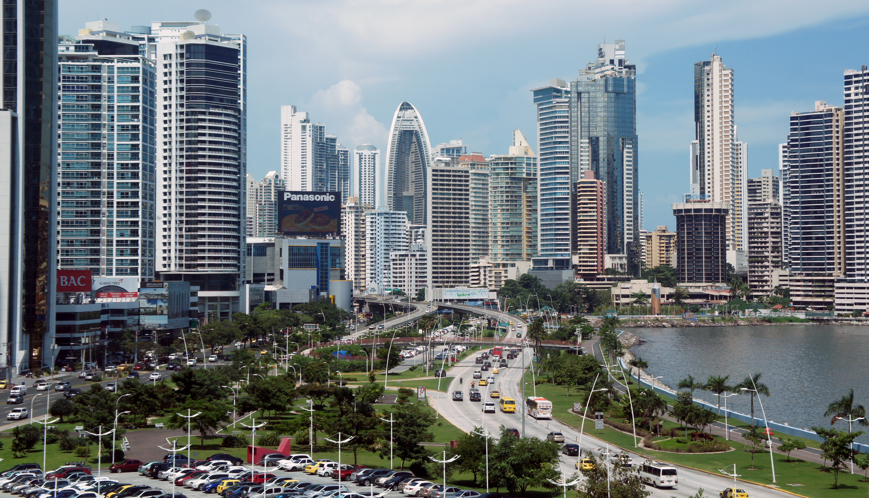 Panoramic view of Avenida Balboa and Cinta Costanera, Panama City, Panama